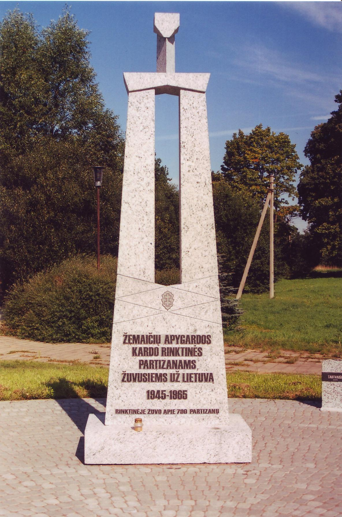 Darbėnai, Kretinga district, LithuaniaLietuvių: Darbėnų paminklas partizanams, Kretingos rajonas, Lietuva